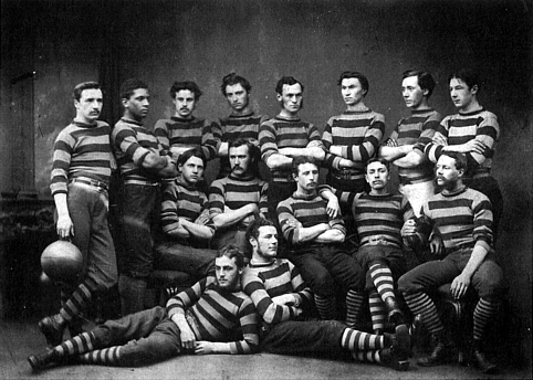 Photograph of 1871 Royal High School Rugby Football Club team.